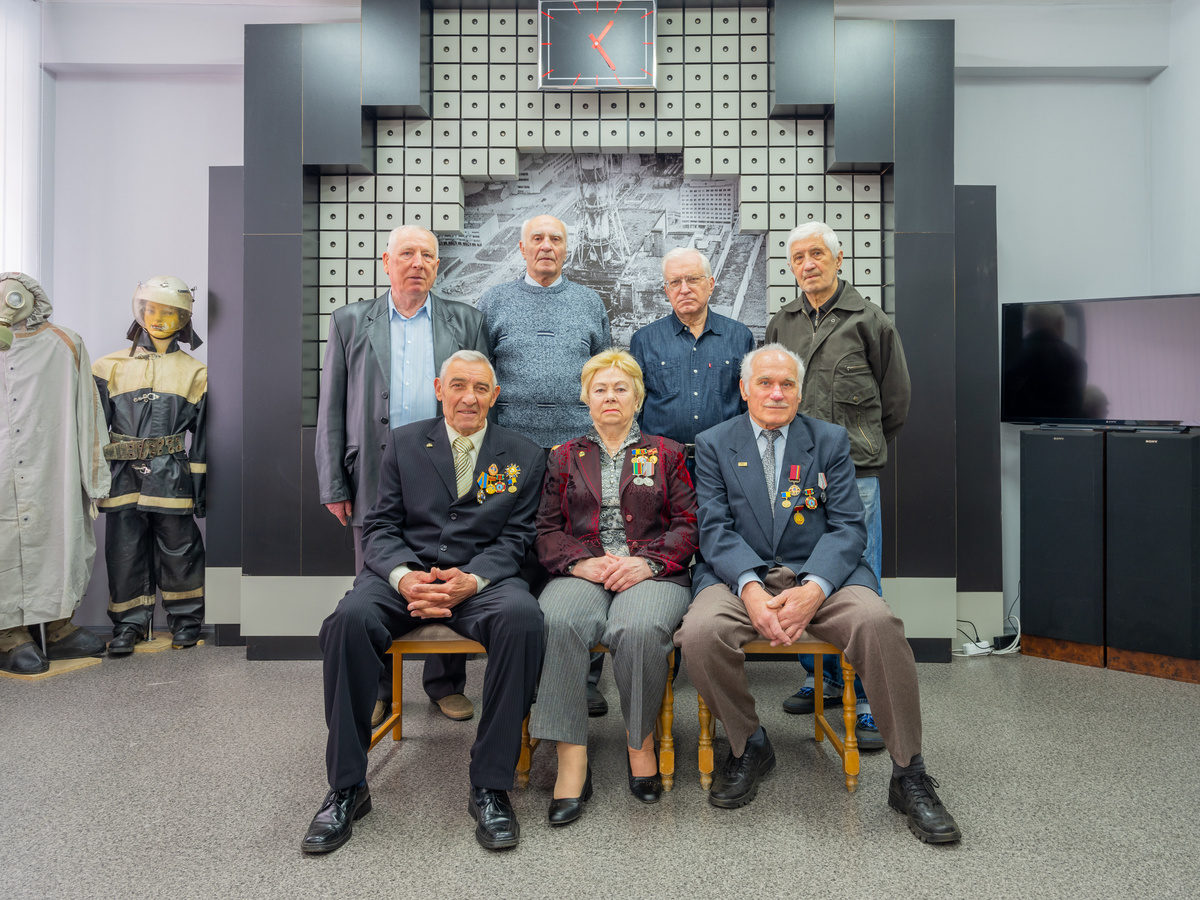 This photograph was taken at the Museum in Slavutych on the anniversary of the Chernobyl disaster. Each of the people worked to clean up the radioactive fall out and are collectively known as Liquidators. Photograph by Tom Skipp.